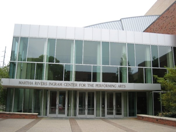 Art Center